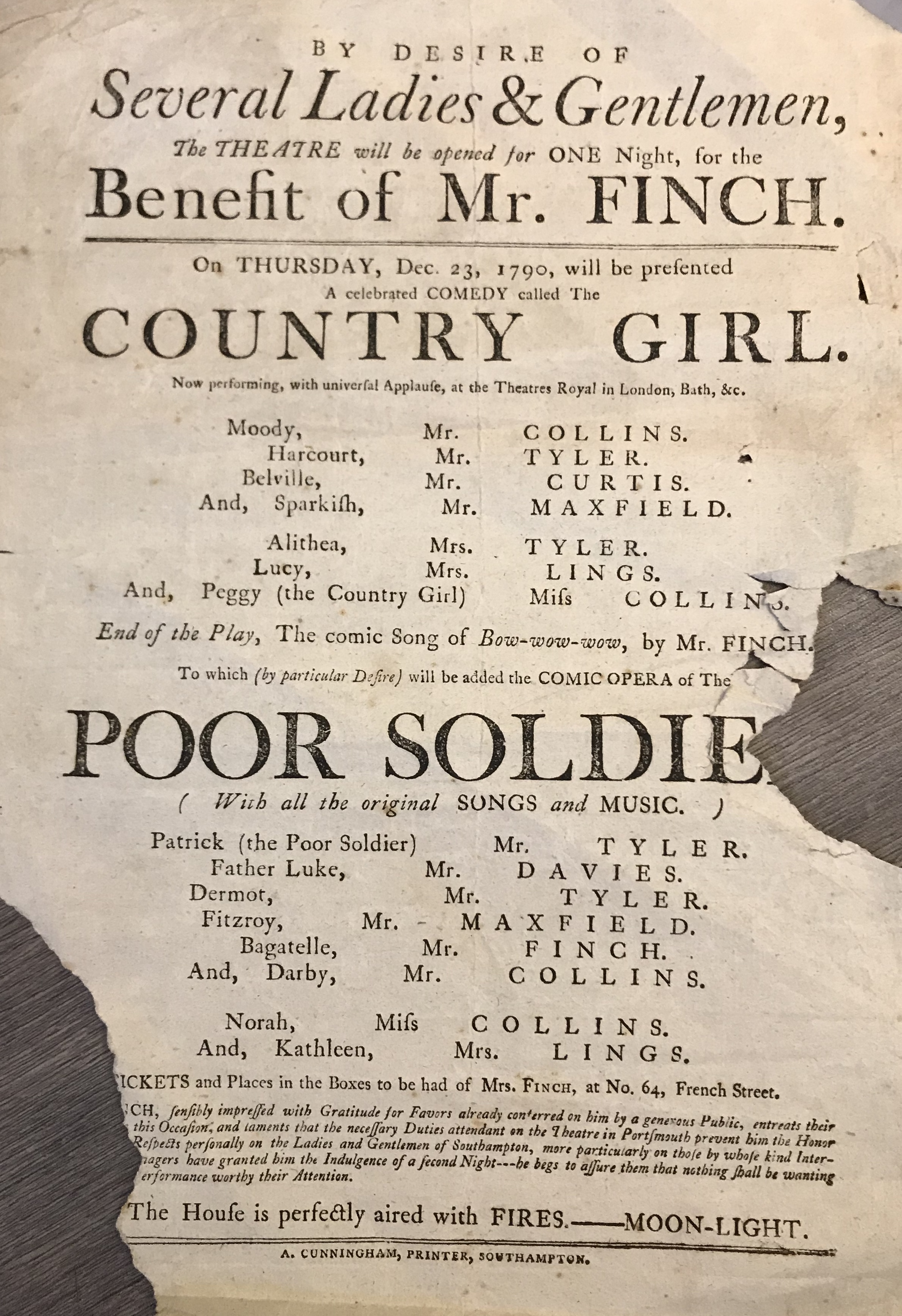 December 23 1790. Another comic opera called poor soldier was also performed